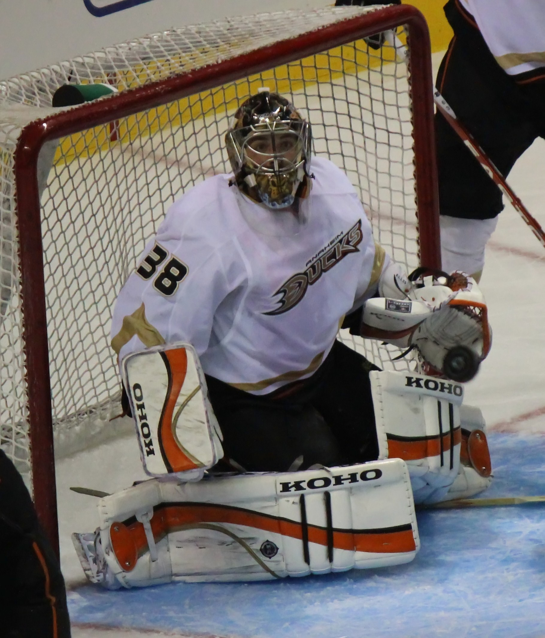 Photo of Dan Ellis